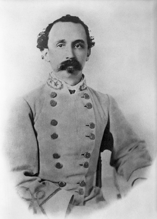 This is a photograph of Lawrence Sullivan Ross during his time as a soldier in the 1860s. The original photograph now resides in the Texas Collection at Baylor University. It was originally published during Ross's lifetime in the late 1800s. Texas Collection at Baylor University